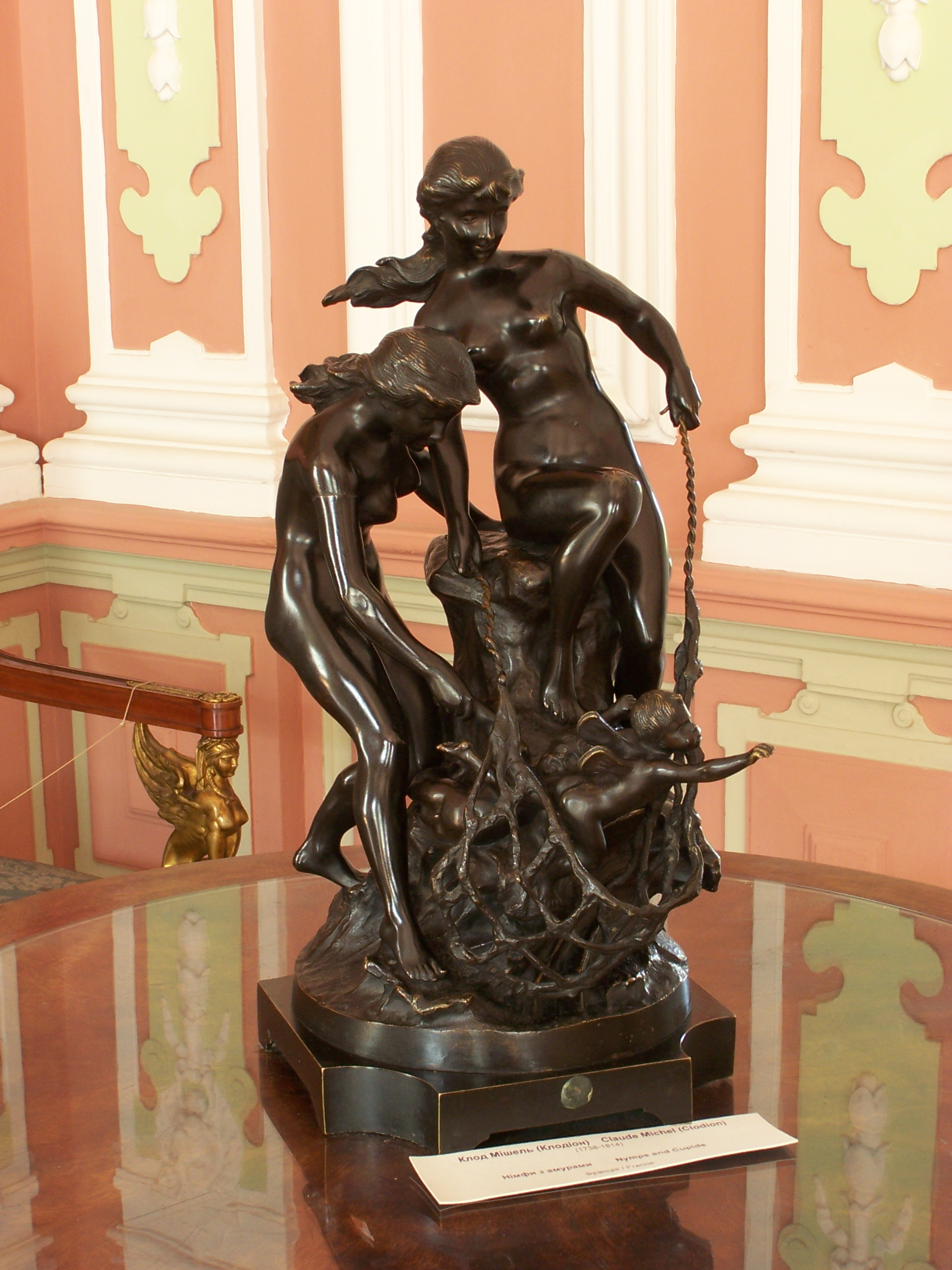 Claude Michel (Clodion) - Nymps and Cupids. Gallery of Art in Lviv.